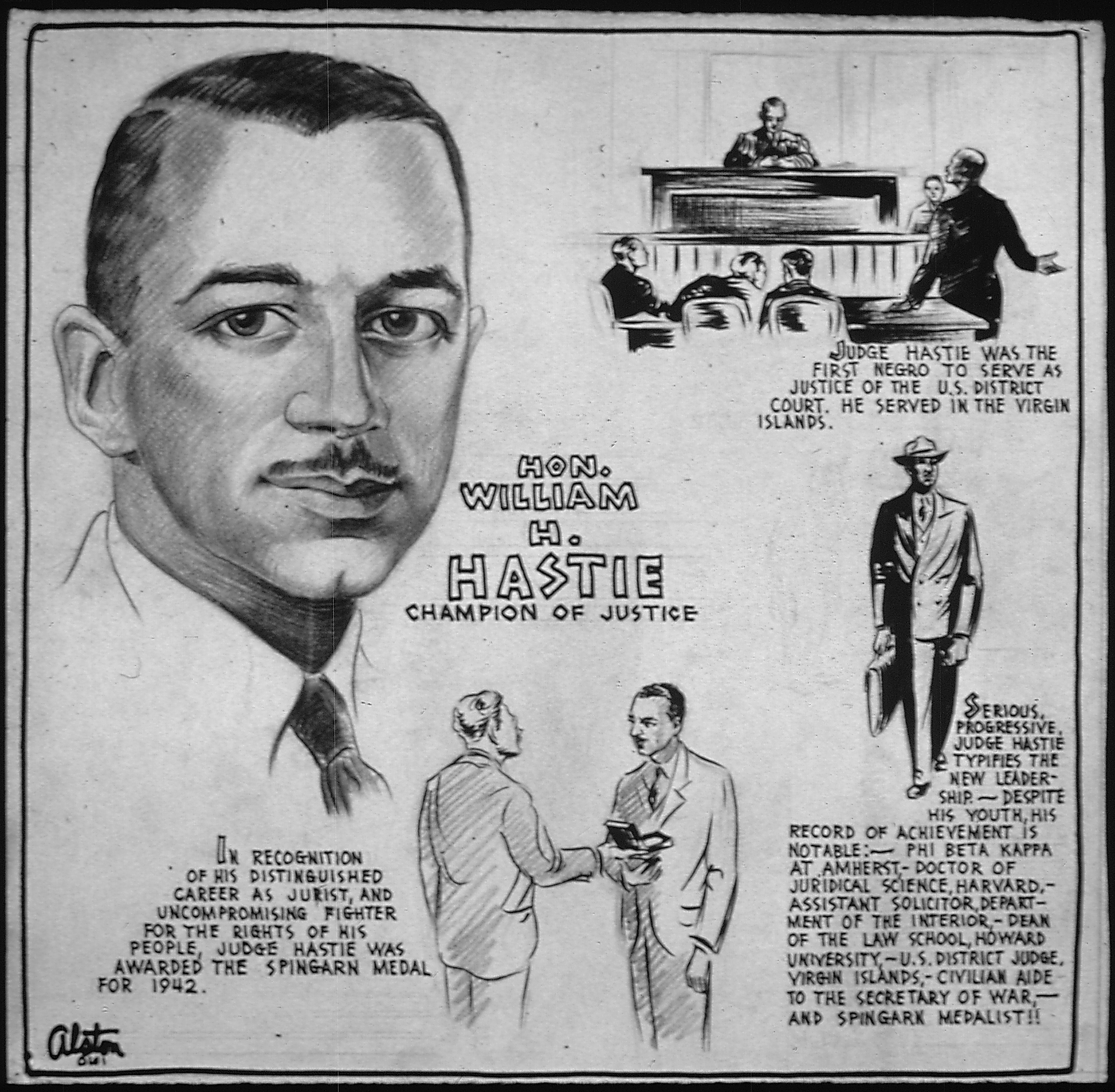 Scope and content: Honorable William H. Hastie - with biographical paragraphs.